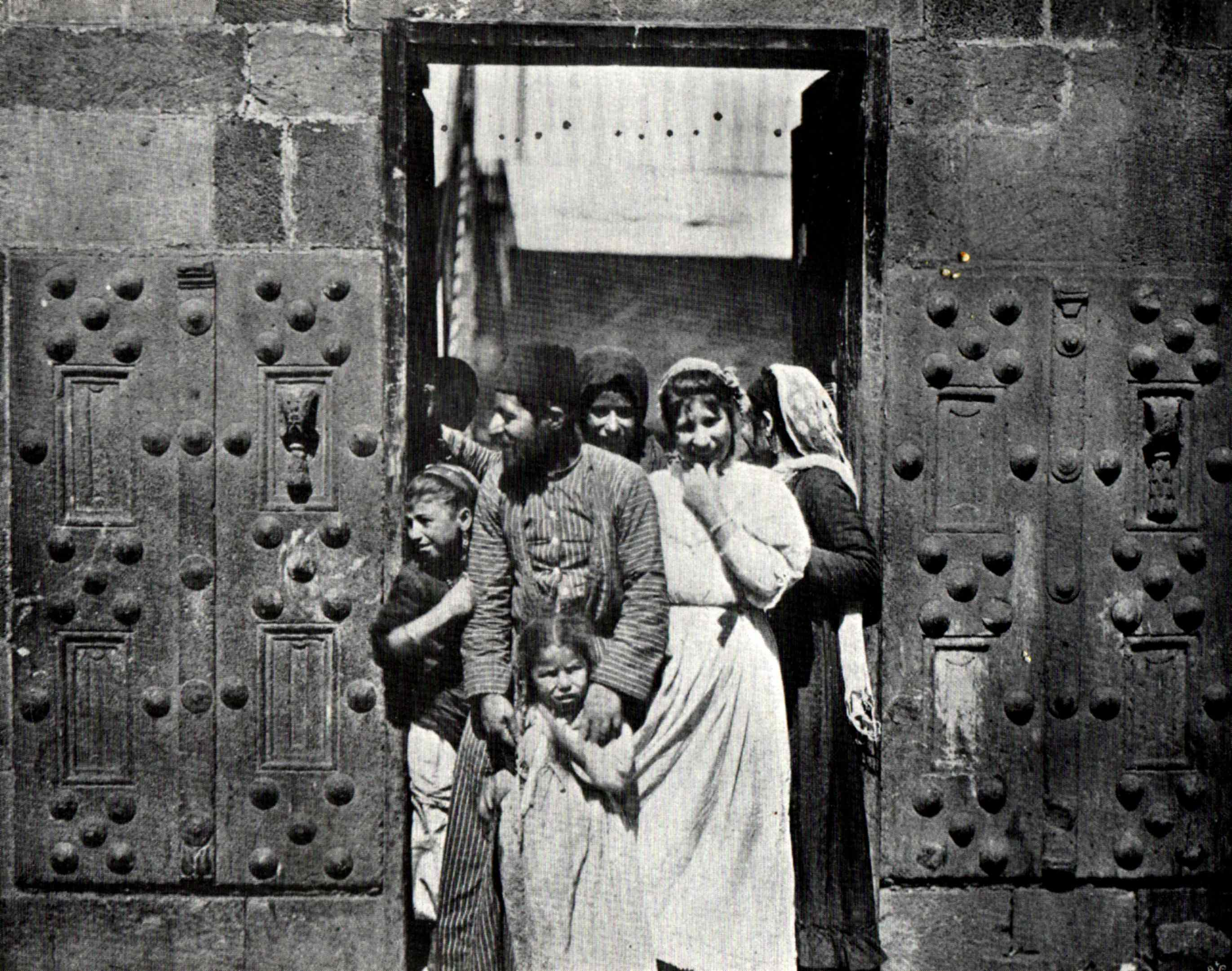 Entrance to a Jewish House in Tiberias